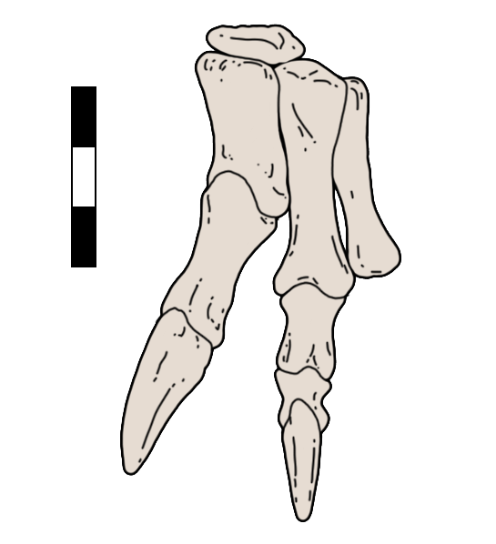 Reconstructed right manus of Chilesaurus diegosuarezi, based on SNGM-1935, SNGM-1937 and SNGM-1887.